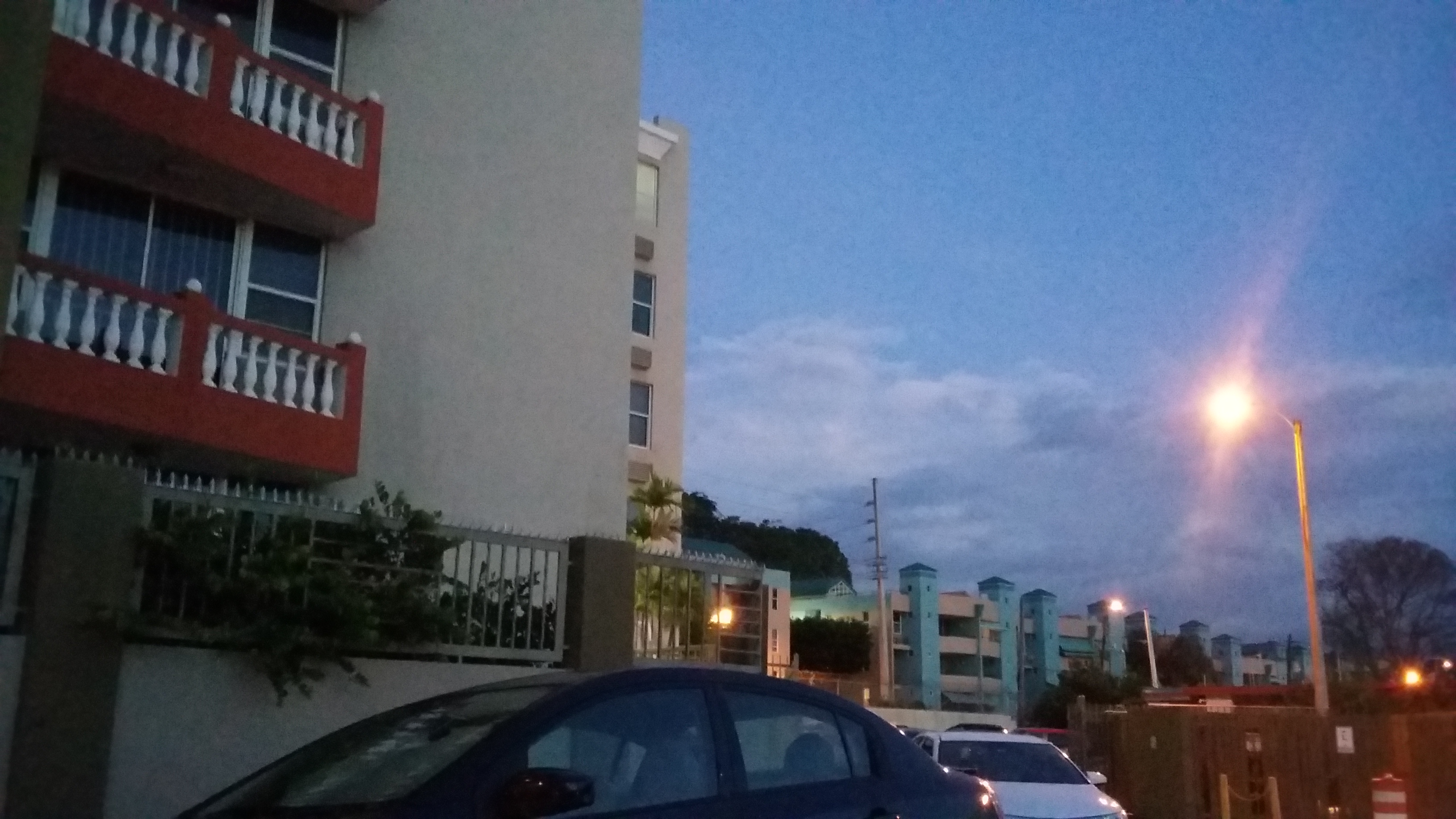 Student Apartments in the Ensanche Ramirez area.